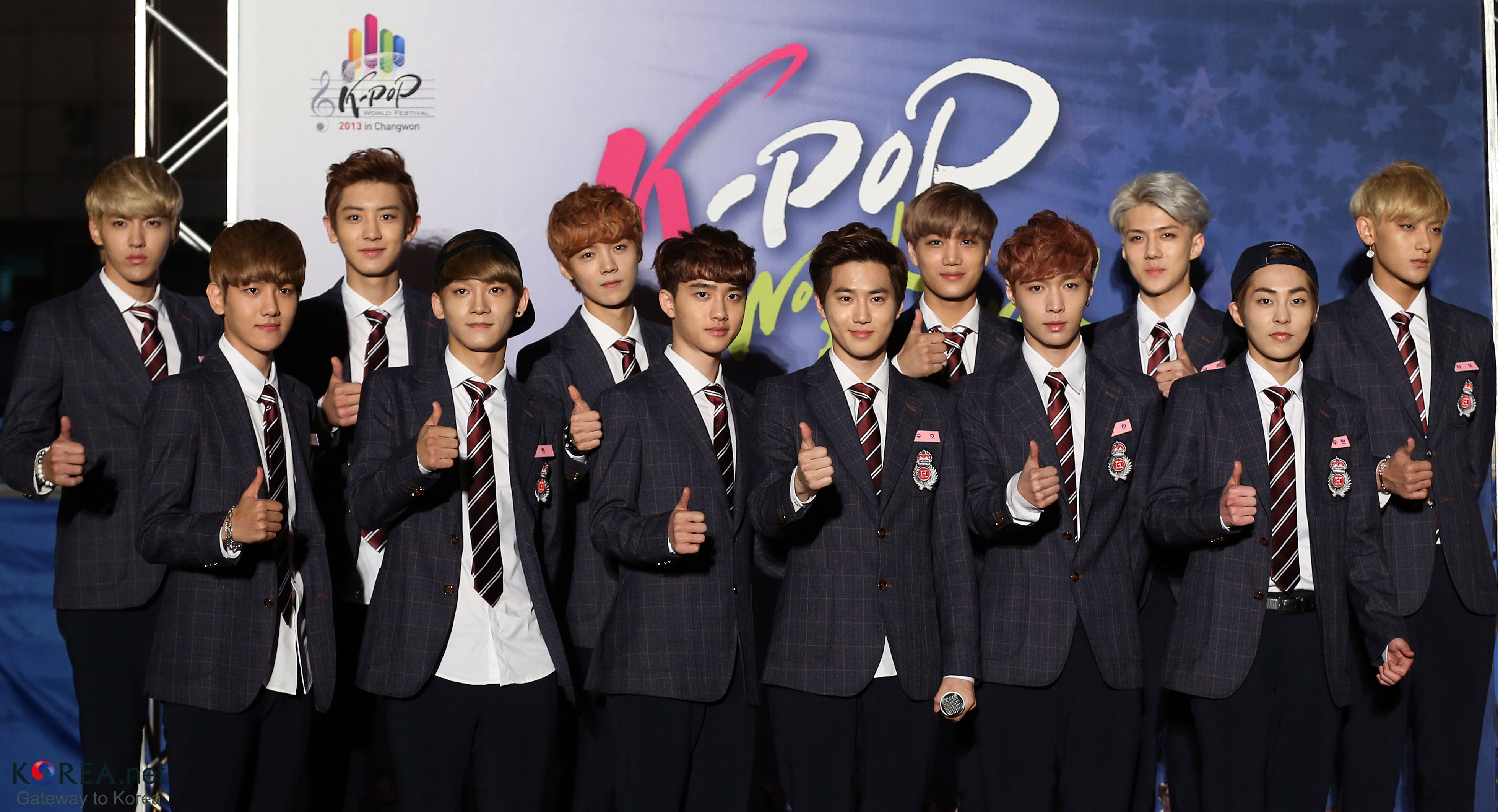 At the back from left to right: Kris, Chanyeol, Luhan, Kai, Sehun, Tao. At the front from left to right: Baekhyun, Chen, D.O, Suho, Lay, Xiumin --- 2013 K-POP World Festival in Changwon October 20, 2013 Changwon-si, Gyengsangnam-do Related Articles Cheong Wa Dae K-Pop World Festival unites global fans -English K-Pop World Festival unites global fans -中文 “2013 K-POP世界庆典” 用K-POP连结全世界 -Vietnamese Cả thế giới hội tụ tại “K-pop World Festival 2013” -日本語 「Kポップワールド・フェスティバル2013」、Kポップで世界が一つに -Deutsch „K-Pop World Festival” bringt internationale Fans zusammen -Francais Un festival mondial de la K-Pop 2013 de haute volée -Russian K-Pop World Festival объединяет фанатов со всего мира -Arabic المهرجان العالمي للبوب الكوري يوحد الجماهي Ministry of Culture, Sports and Tourism Korean Culture and Information Service ( Jeon Han 2013 제3회 K-POP 월드페스티벌 2013-10-20 경상남도, 창원시 문화체육관광부 해외문화홍보원 코리아넷 전한